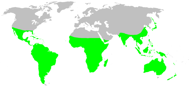 Nephilidae habitat distribution, drawn after Platnick: World Spider Catalog 7.0. This is not a precise rendering of the distribution! If you have better information, please replace this map, or send me the info, and i will redraw it.